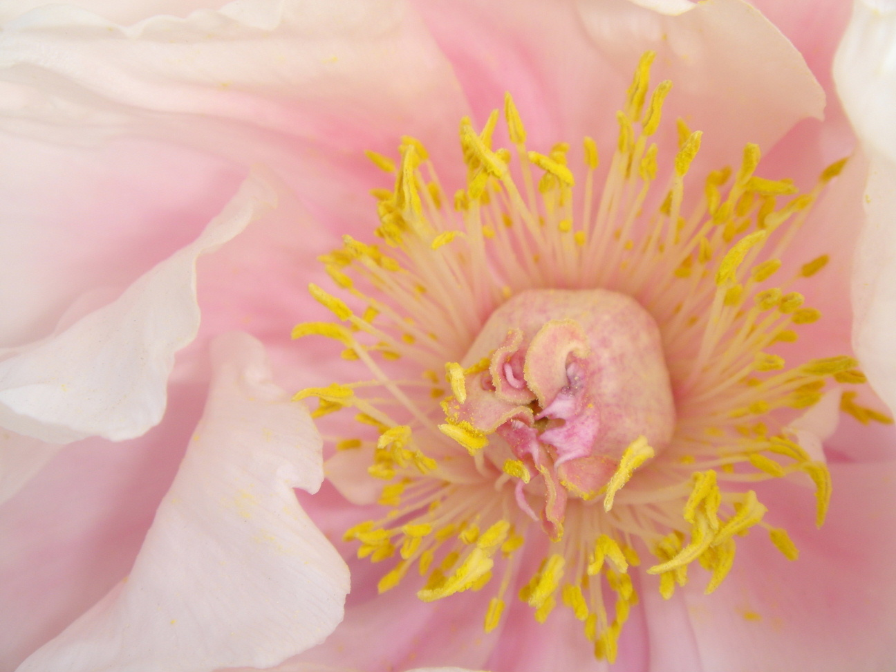 Moutan Peony, 牡丹.Location:Japan.